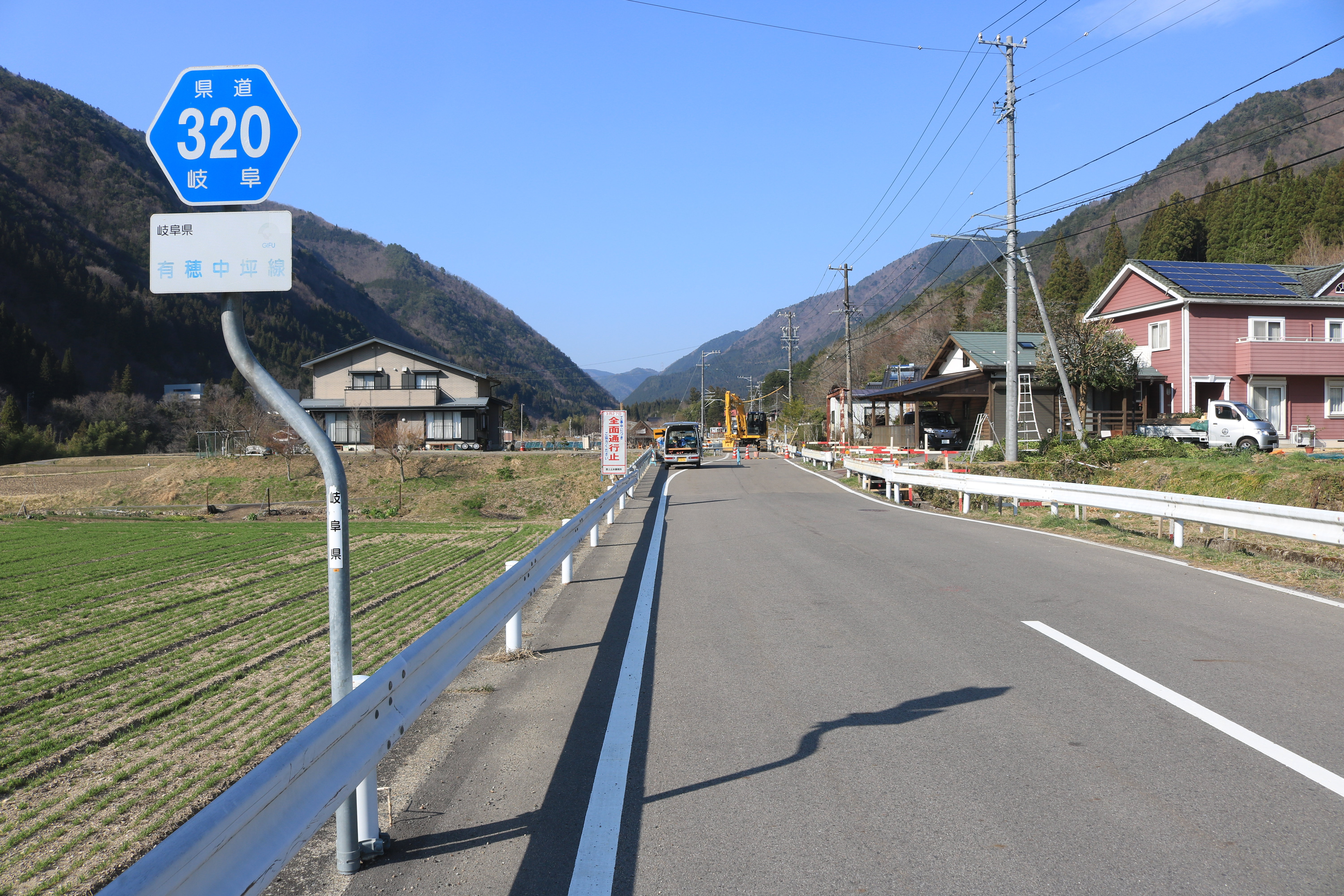 Gifu Prefectural Road Route 320 in Ichishima, Hachimancho, Gujo, Gifu Prefecture, Japan.